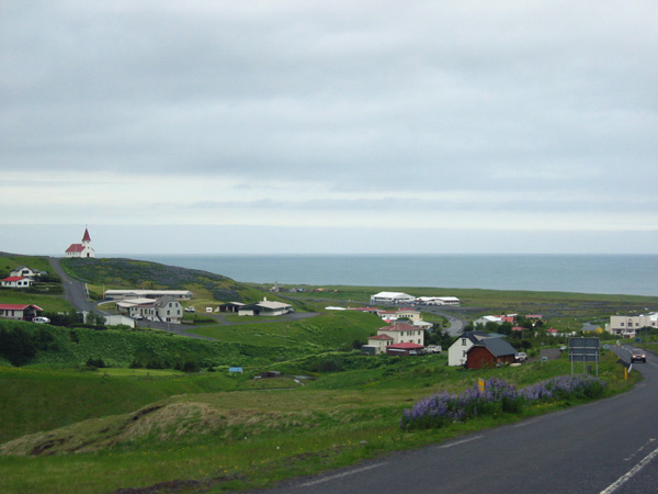 Photo taken by D. Futato, June 2006.